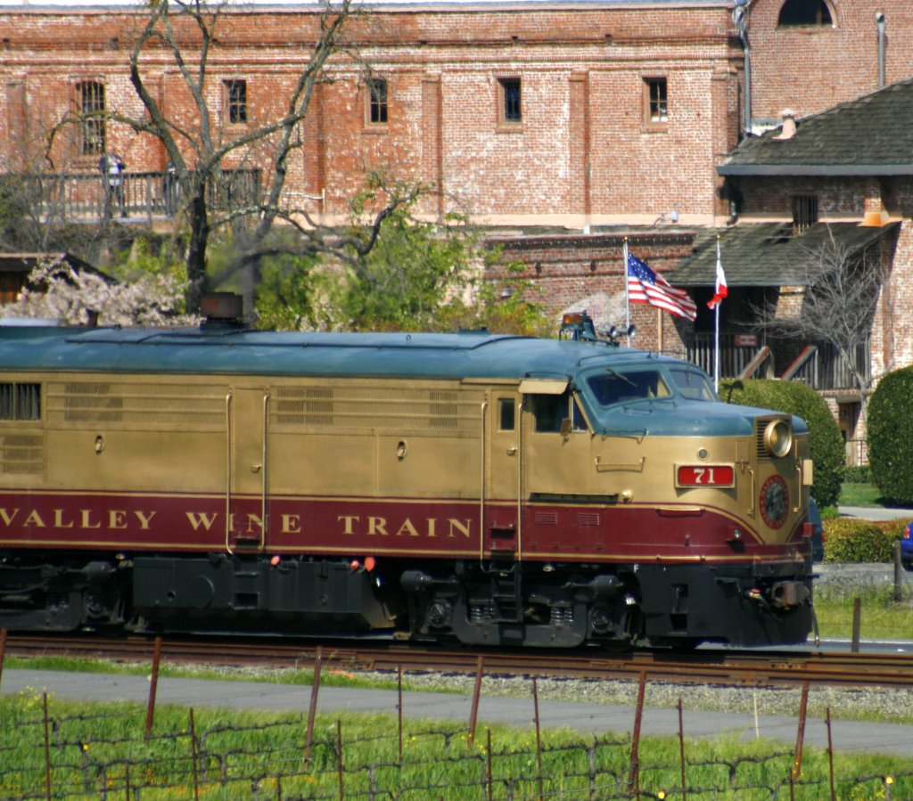 The Napa Valley Wine Train 1